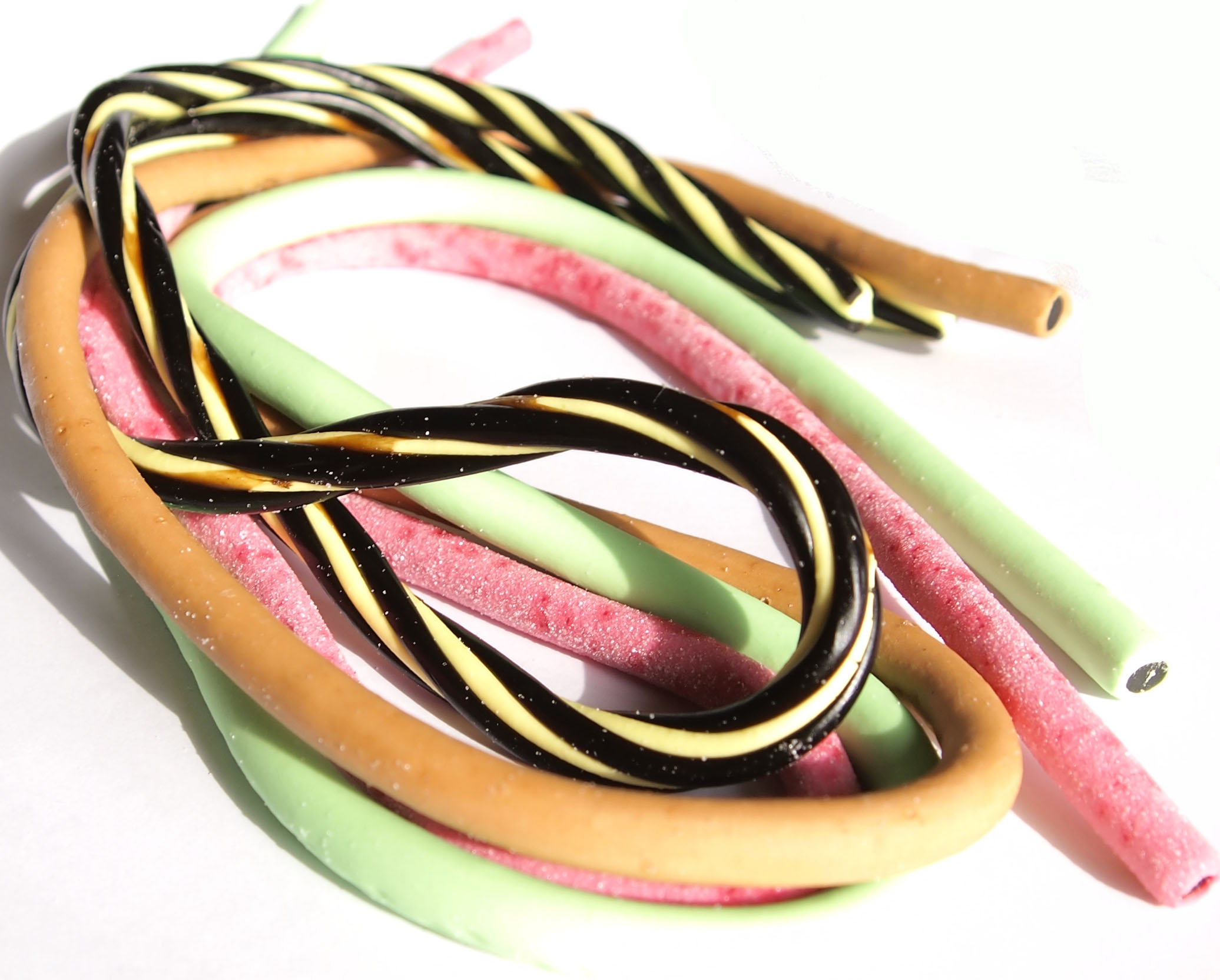 Liquorice sticks in different colors.